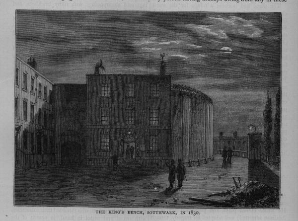 King's Bench prison 1830, which was situated on Borough High Street, Southwark, next to the second Marshalsea. Source: Walter Thornbury, Old and New London: A Narrative of its History, its People and its Places. Illustrated with Numerous Engravings from the Most Authentic Sources.: Volume 6. Courtesy of Tufts University Archives. [1]